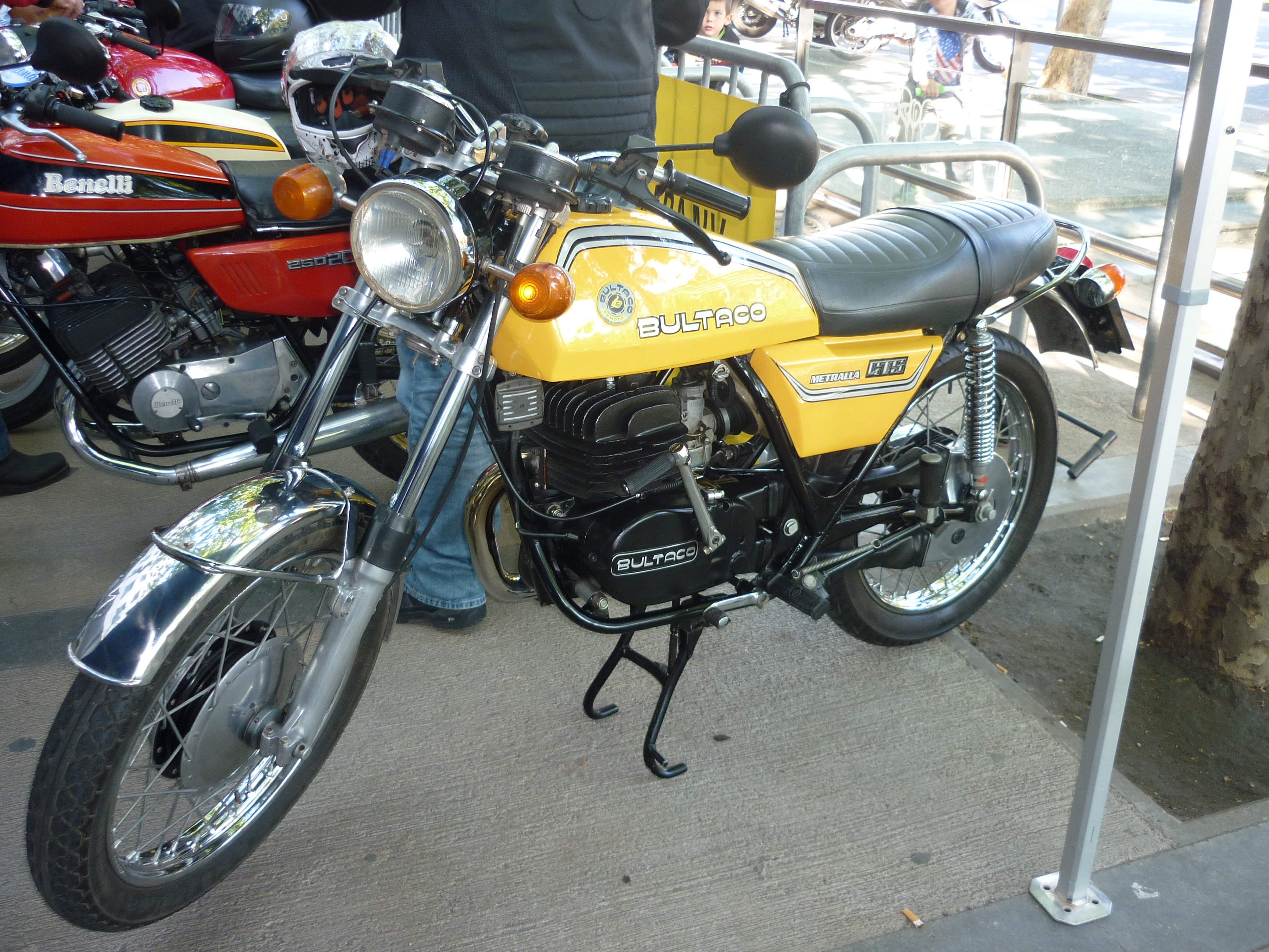 In yellow: Bultaco Metralla GTS/A 250, 1977